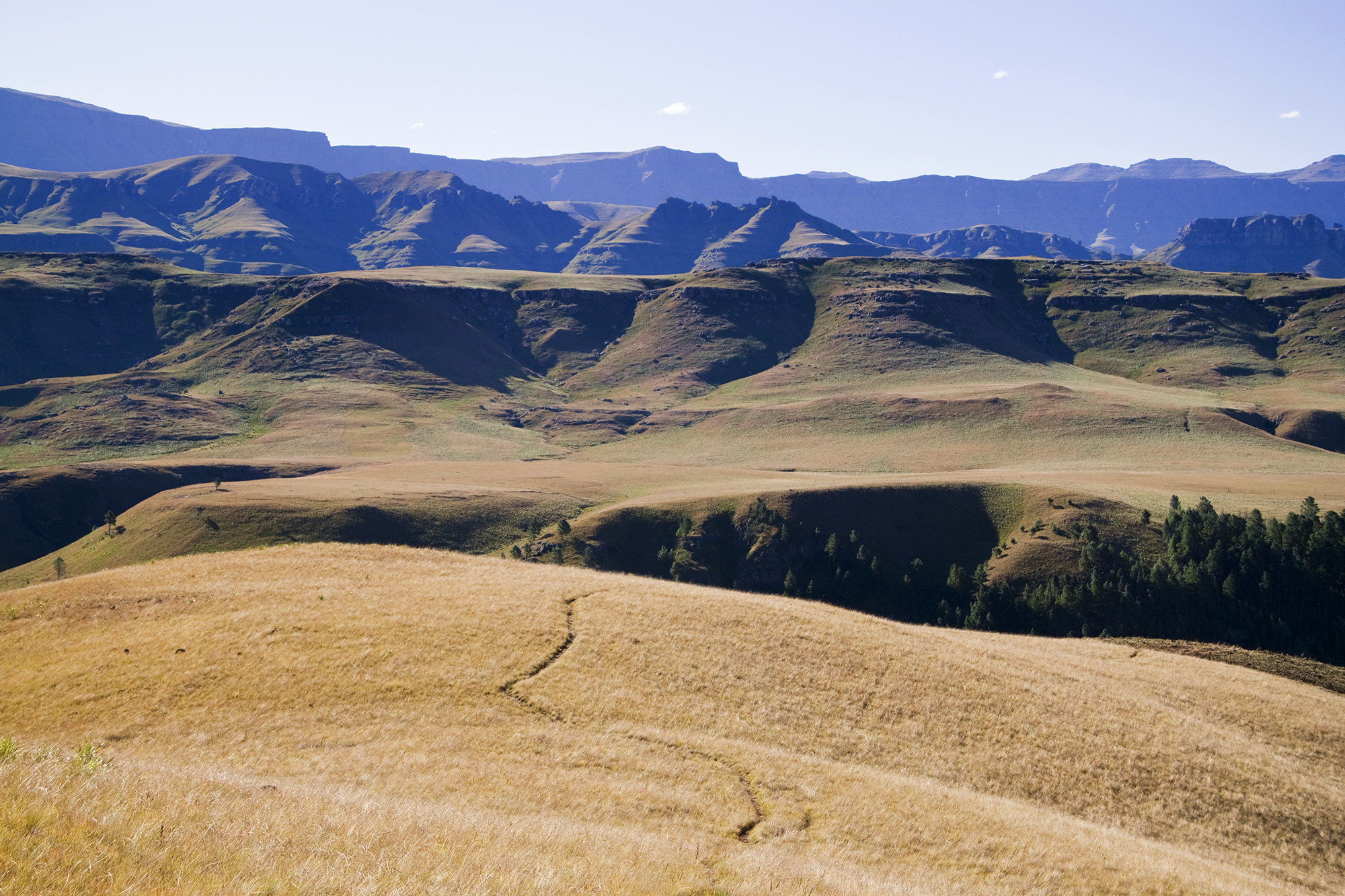 Trekking in Kwazulu-Natal, South Africa